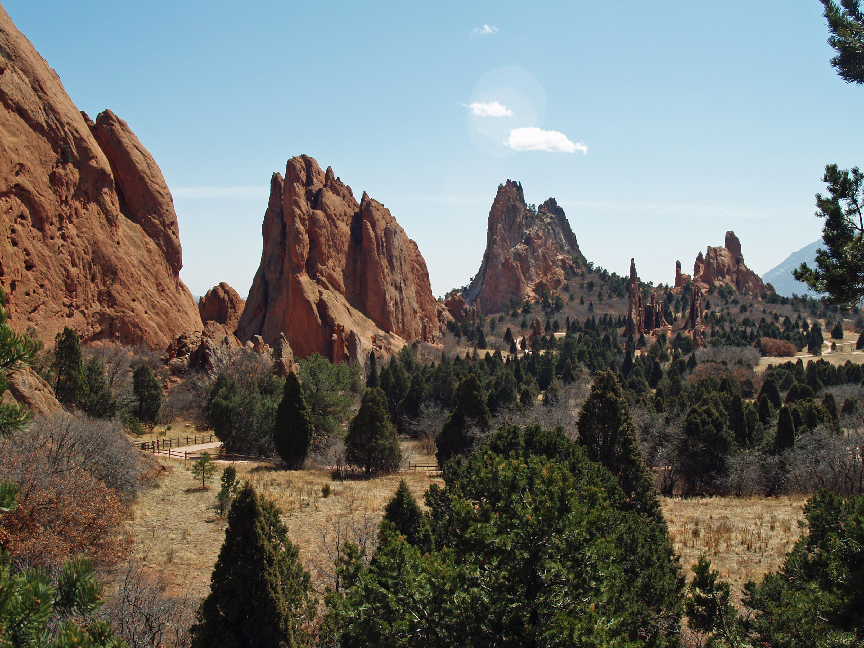 Garden of the Gods Cathedral Valley in Colorado Springs.